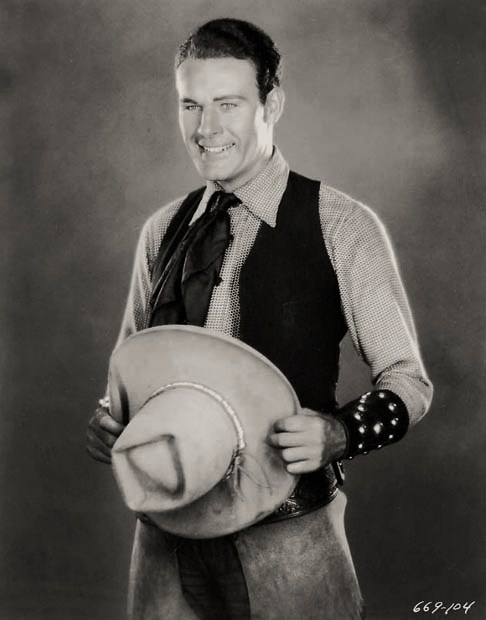 Lane Chandler in Open Range - publicity still